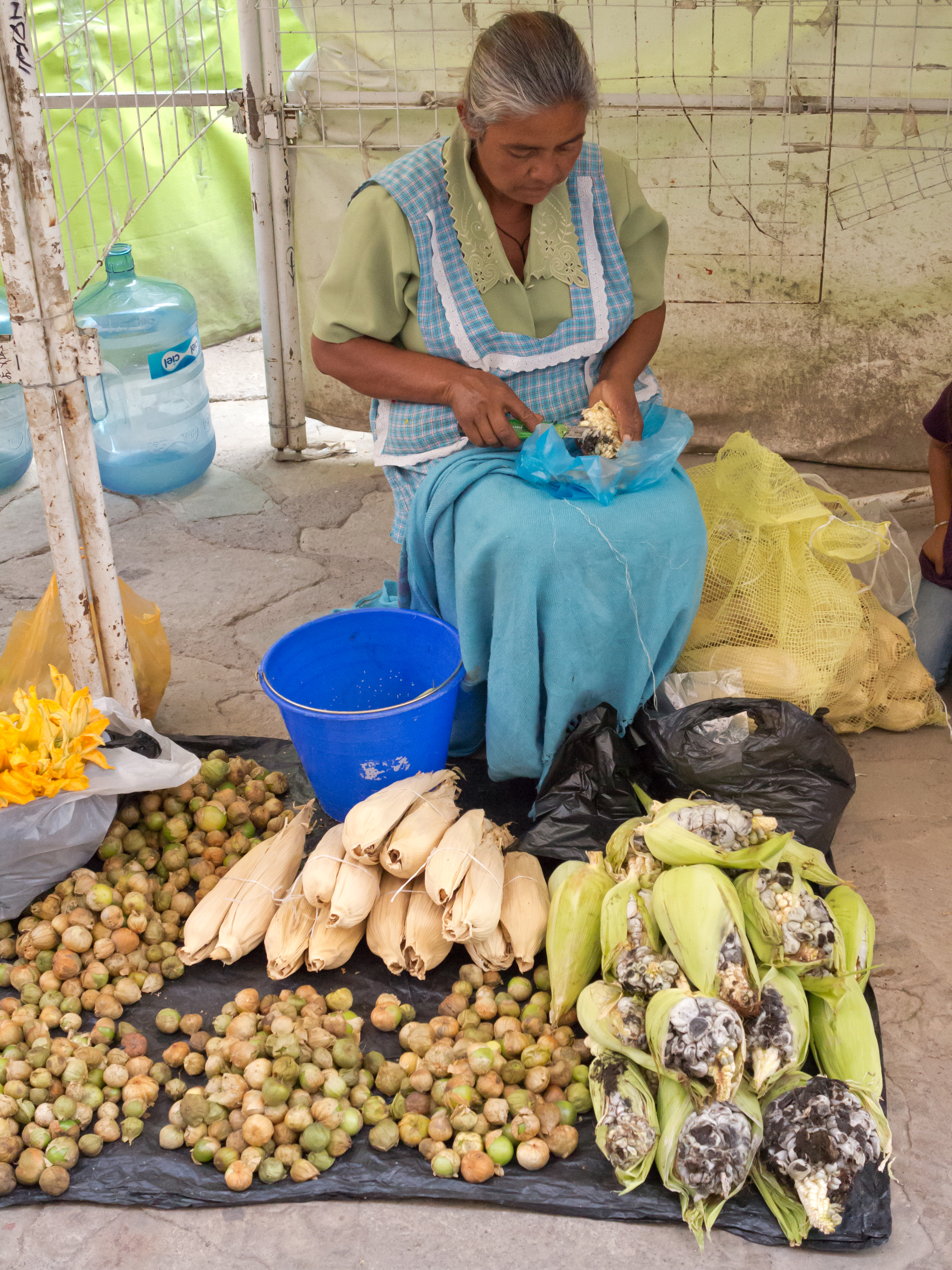 Merchant woman in Guanajuato market selling tomatillo (Physalis philadelphica) to make salsa, Corn smut (huitlacoche) (Ustilago maydis) a delicacy to use in quesadillas in Mexican food, etc., corn husks to make tamales.